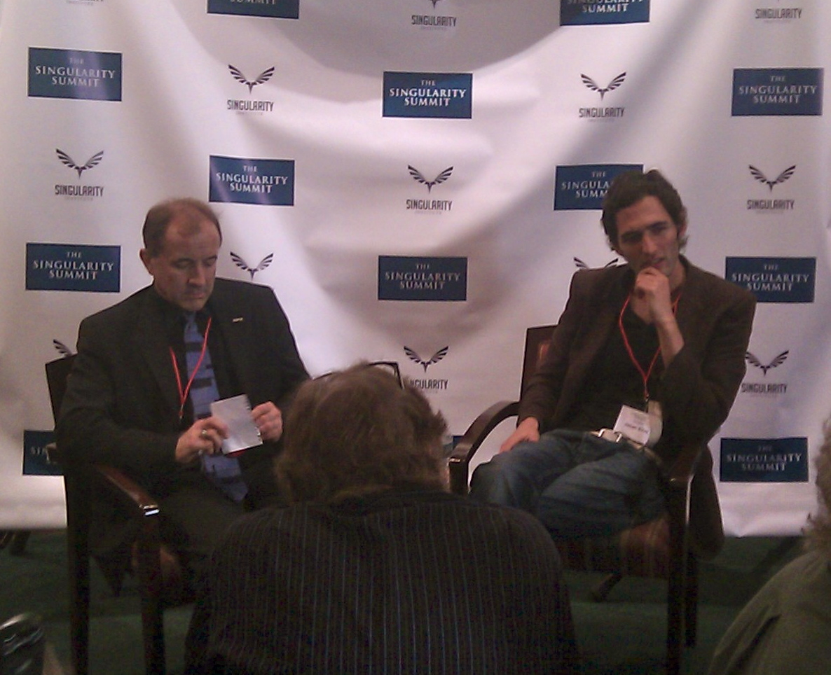 Michael Shermer and Jason Silva